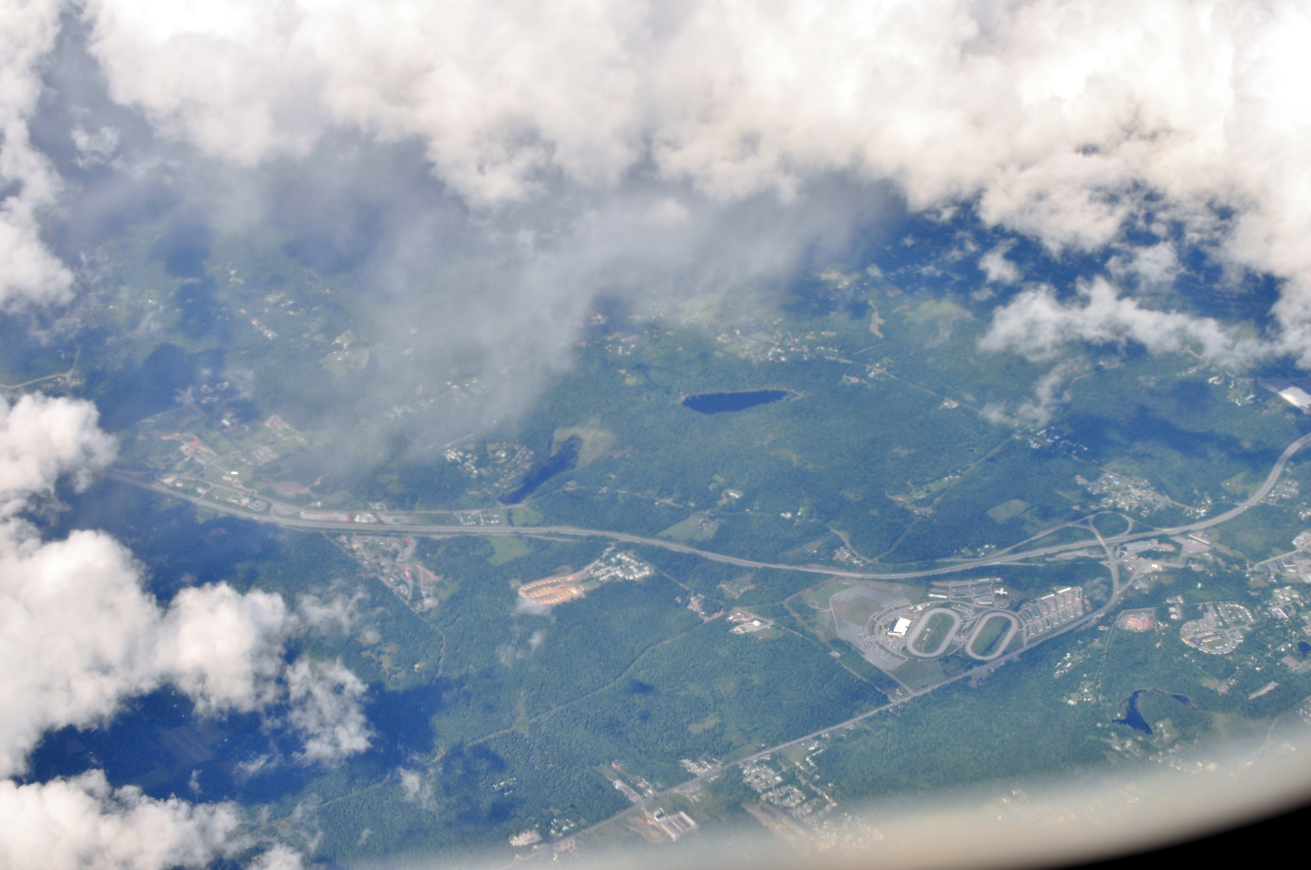 Aerial view of Monticello, Sullivan County, New York, including Monticello Raceway.